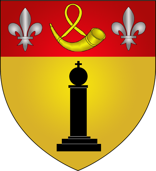 Coat of arms of the municipality of Wincrange, Luxembourg